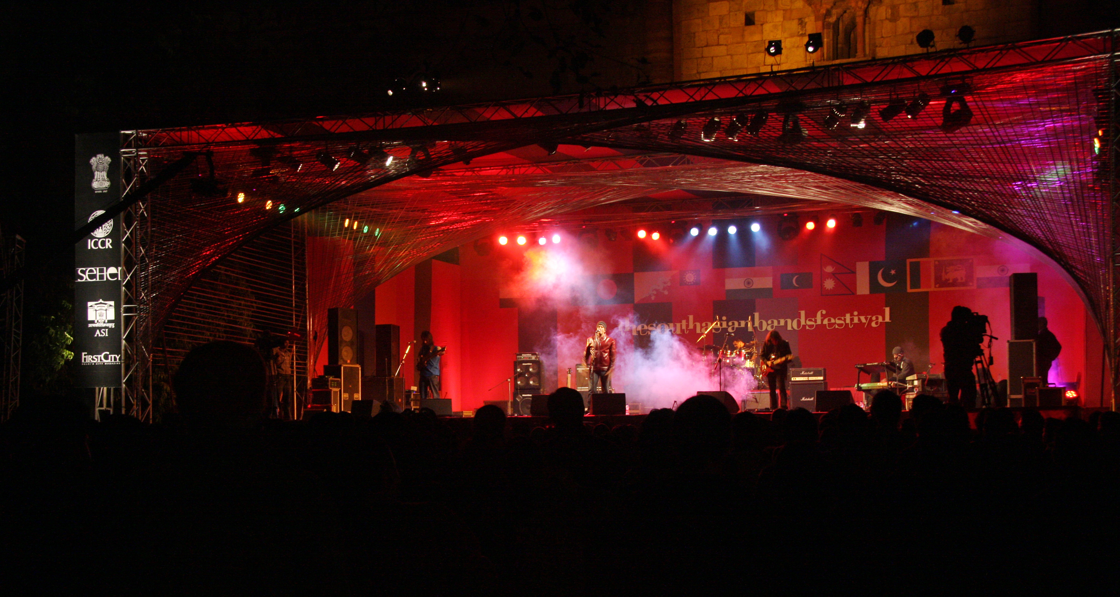 Indus Creed live at the South Asian Bands Festival at Purana Qila, New Delhi, on Dec 13, 2010.